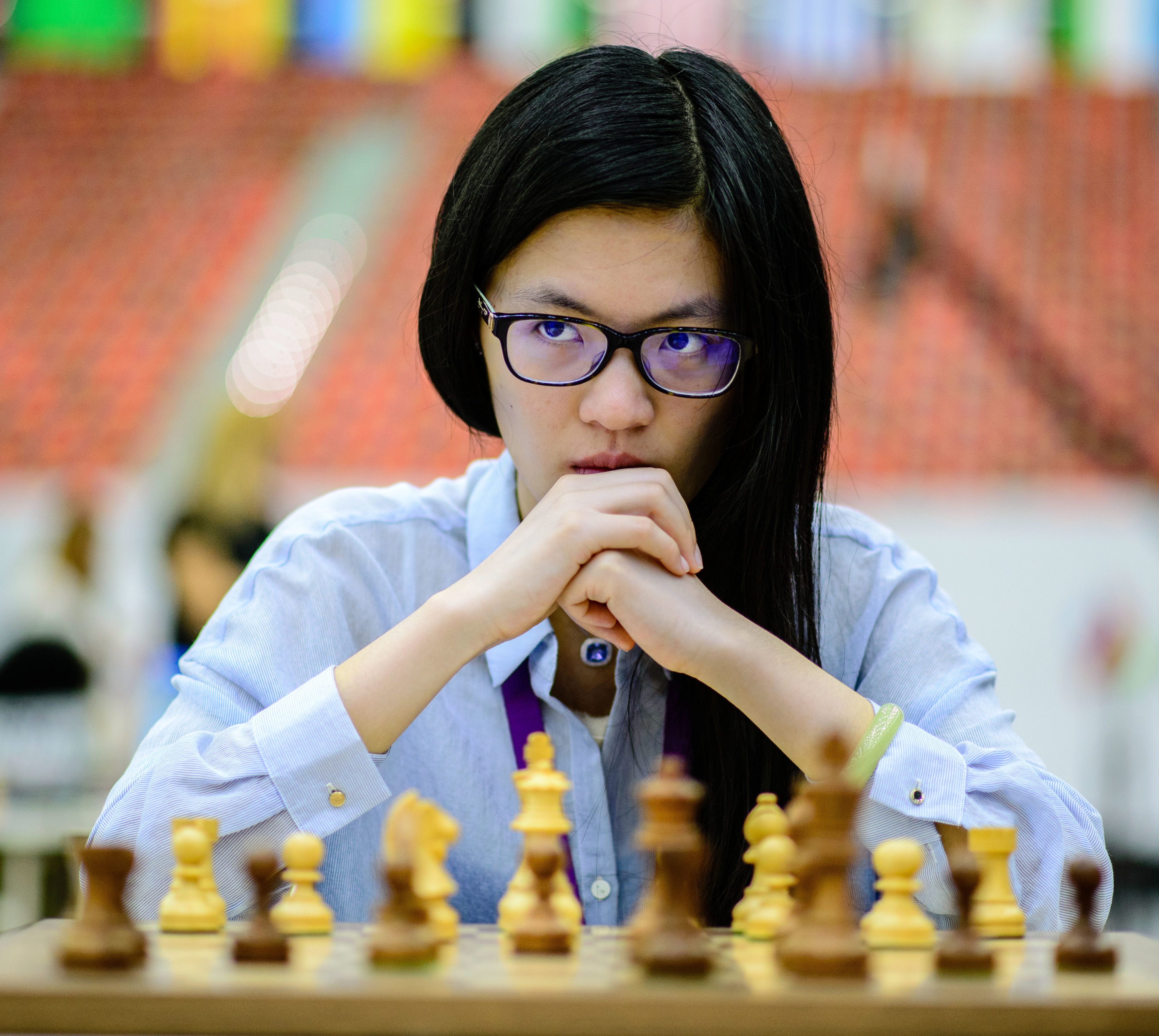 Hou Yifan at the 2016 Chess Olympiad